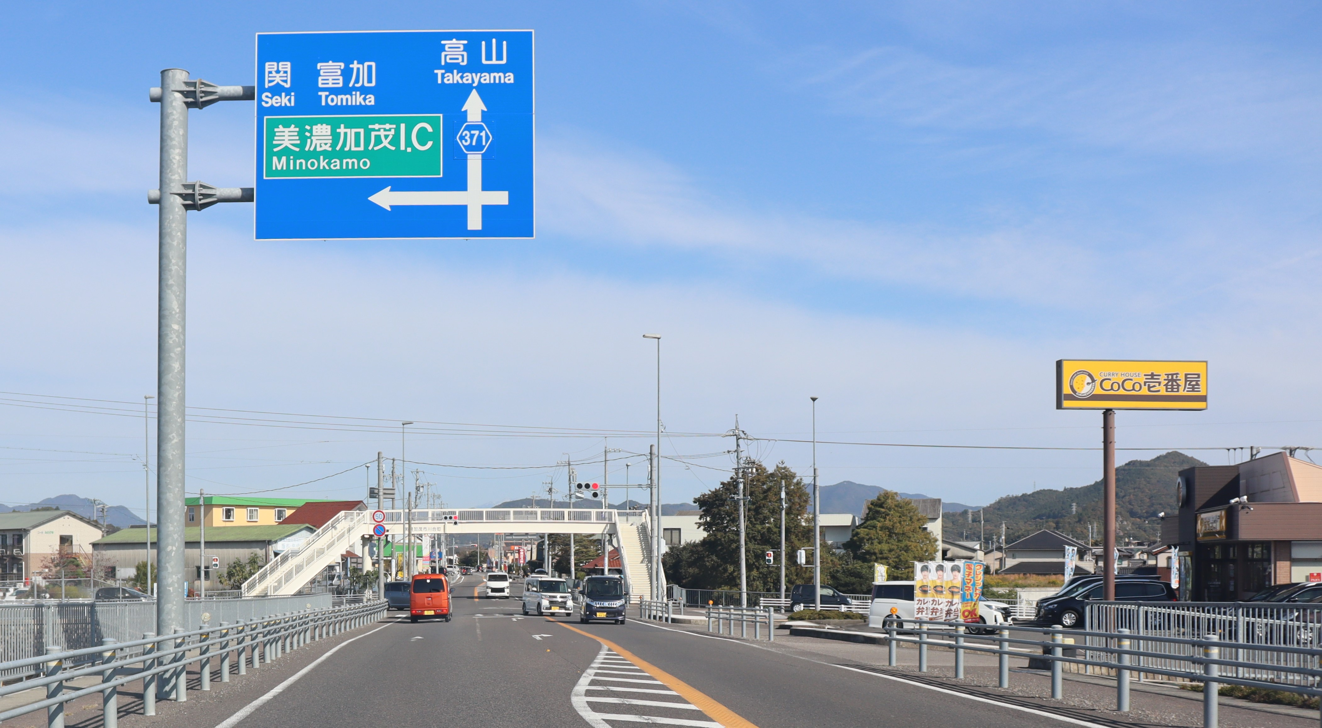 Gifu Prefectural Road Route 371 in Kawaicho, Minokamo, Gifu Prefecture, Japan.